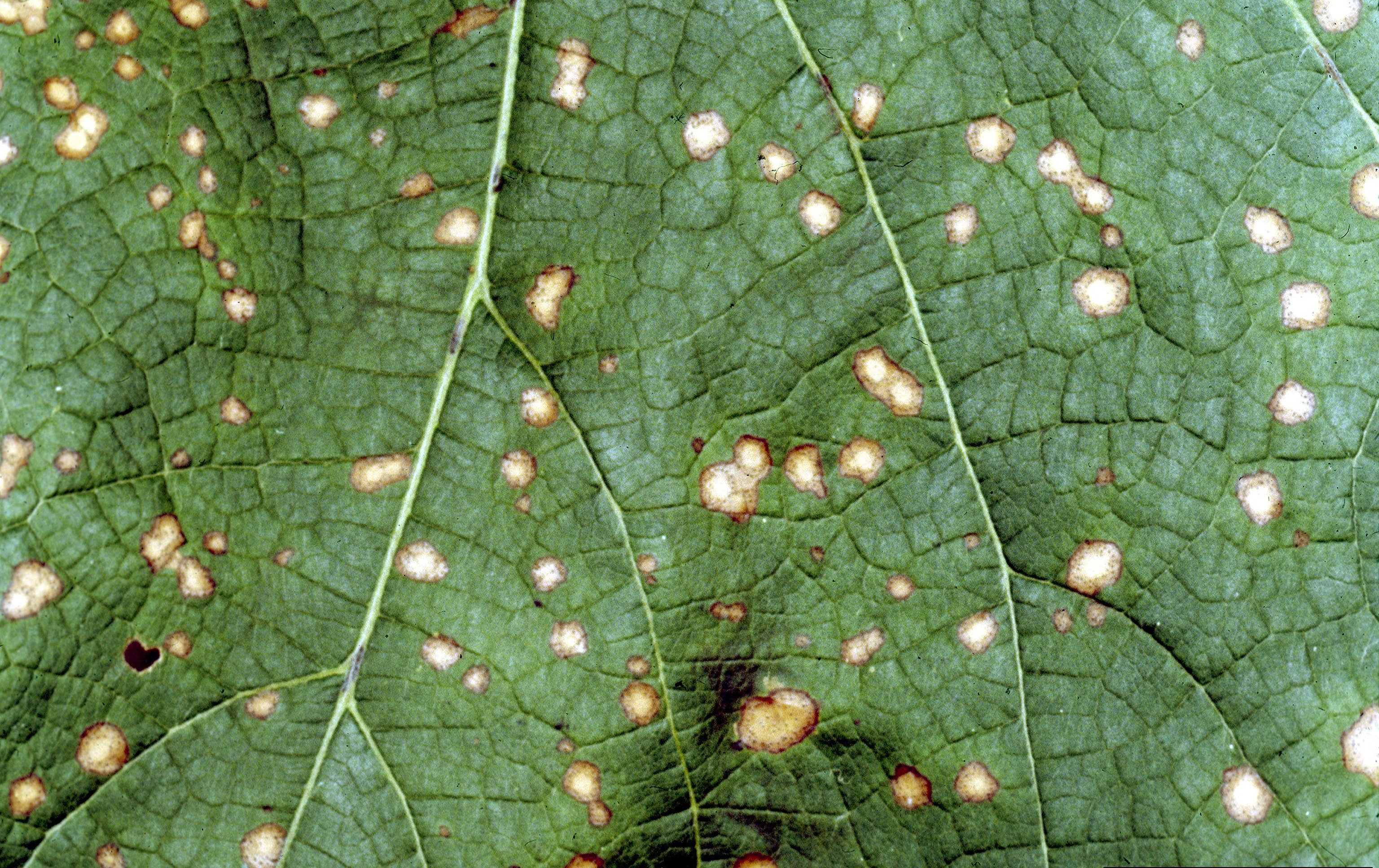 Symptoms of black rot (Guignardia bidwellii) on grape leaf